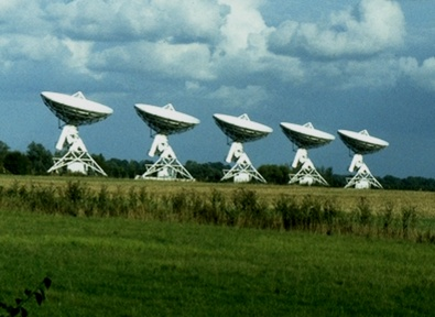 Radio telescope antennas used first for the Ryle Telescope, and later for the Arcminute Microkelvin Imager, located at Mullard Radio Astronomy Observatory in Cambridgeshire.